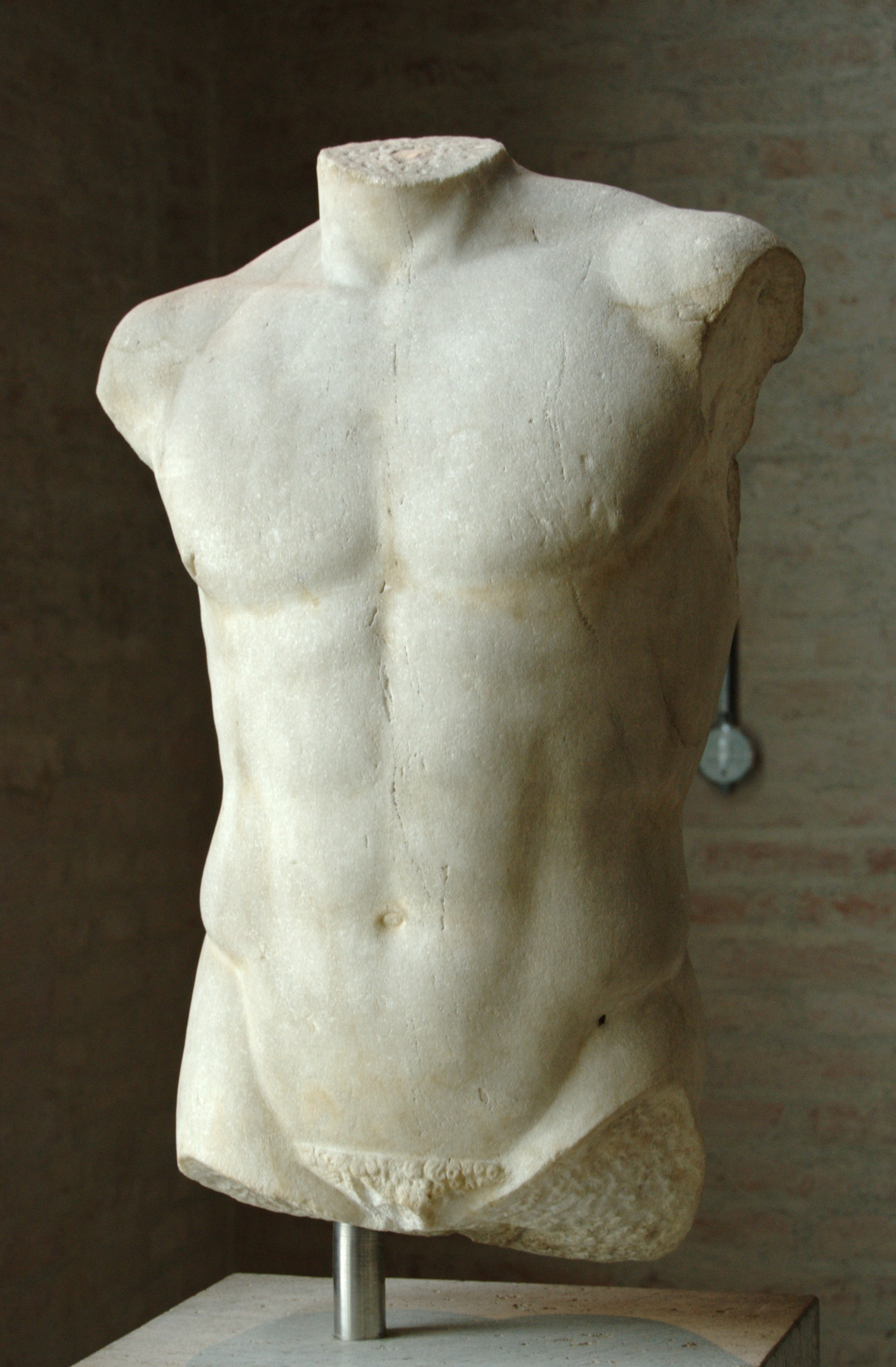 Torso of Apollo. Copy, probably after a statue of Onatas from Aegina (ca. 460 BC).